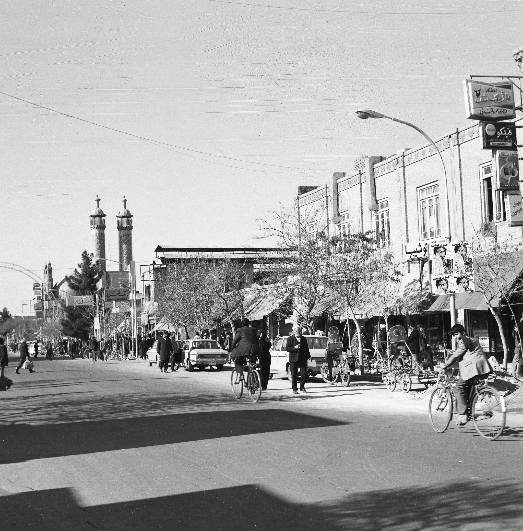 Shahryar bank in Beyhagh street of Sabzevar